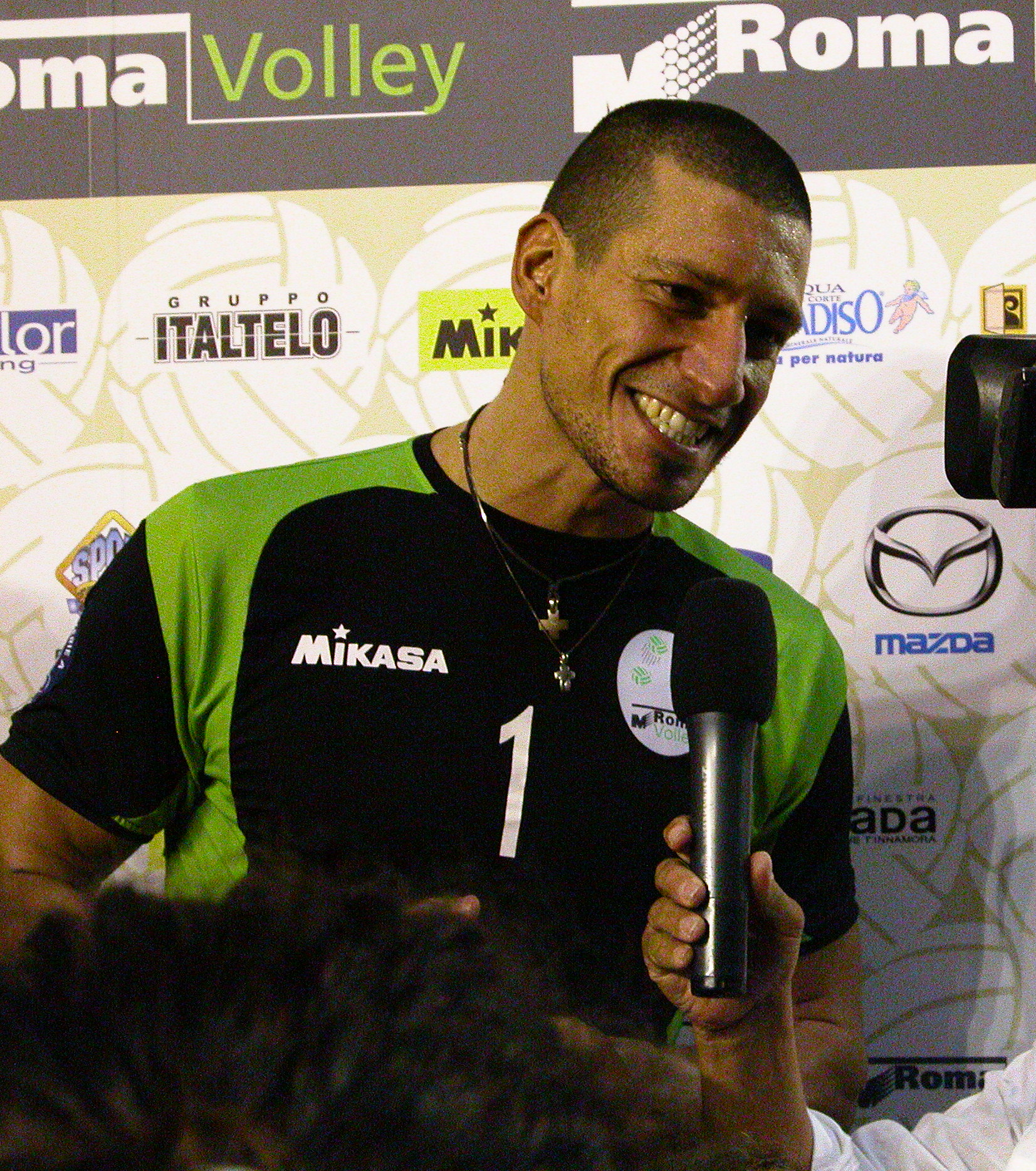 Italian volleyball player Luigi Mastrangelo after his first game with the M. Roma Volley team